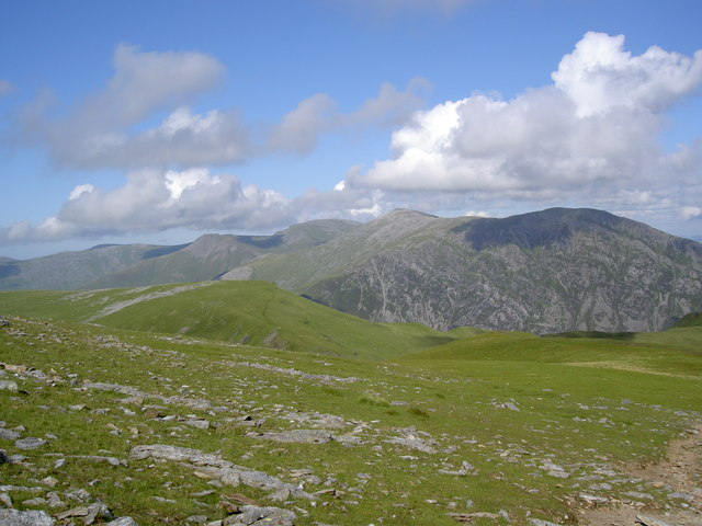 The Carneddau from Elidir Fawr, 3 km from Dinorwig, Gwynedd, Great Britain.